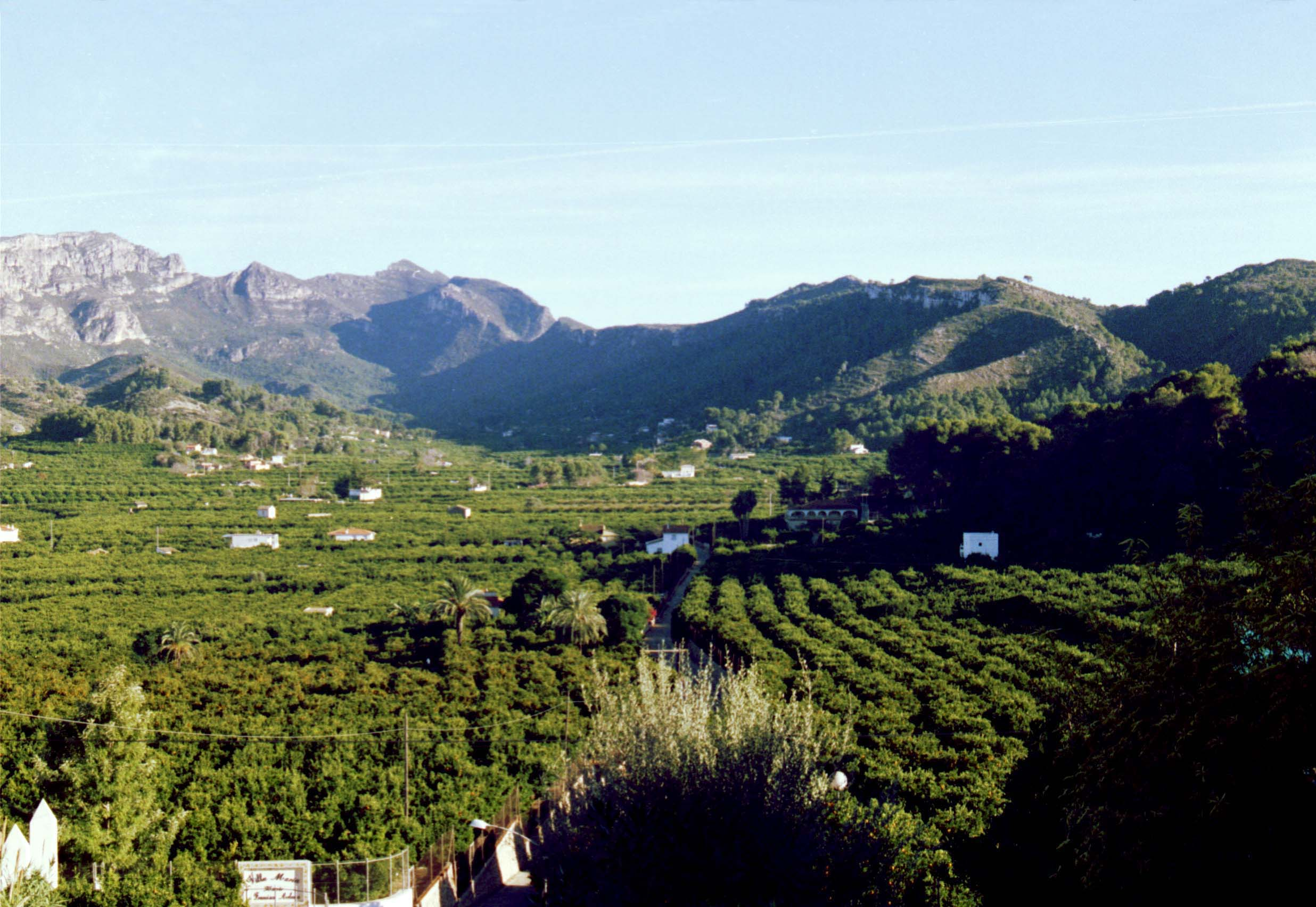 Citrus orchard — in Alzira, the Land of Valencia, Spain.